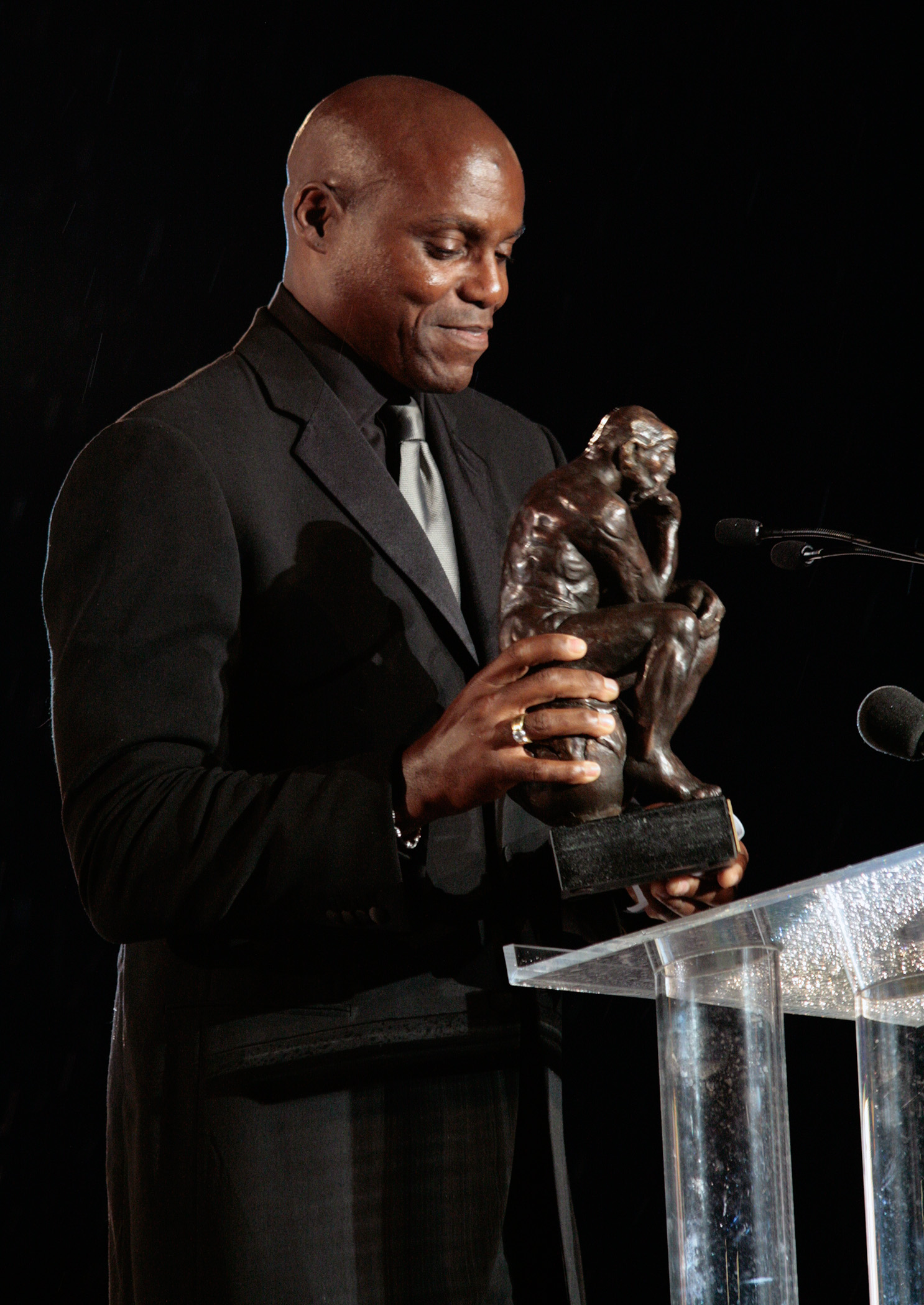 Carl Lewis during the Save the World Awards 2009 (Zwentendorf Nuclear Power Plant, Lower Austria).